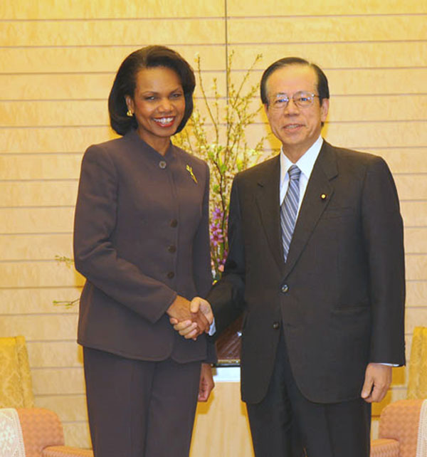 Secretary Rice shakes hands with Japanese Prime Minister Yasuo Fukuda prior to their meeting at the Prime Minister's office in Tokyo on Feb. 27, 2008.